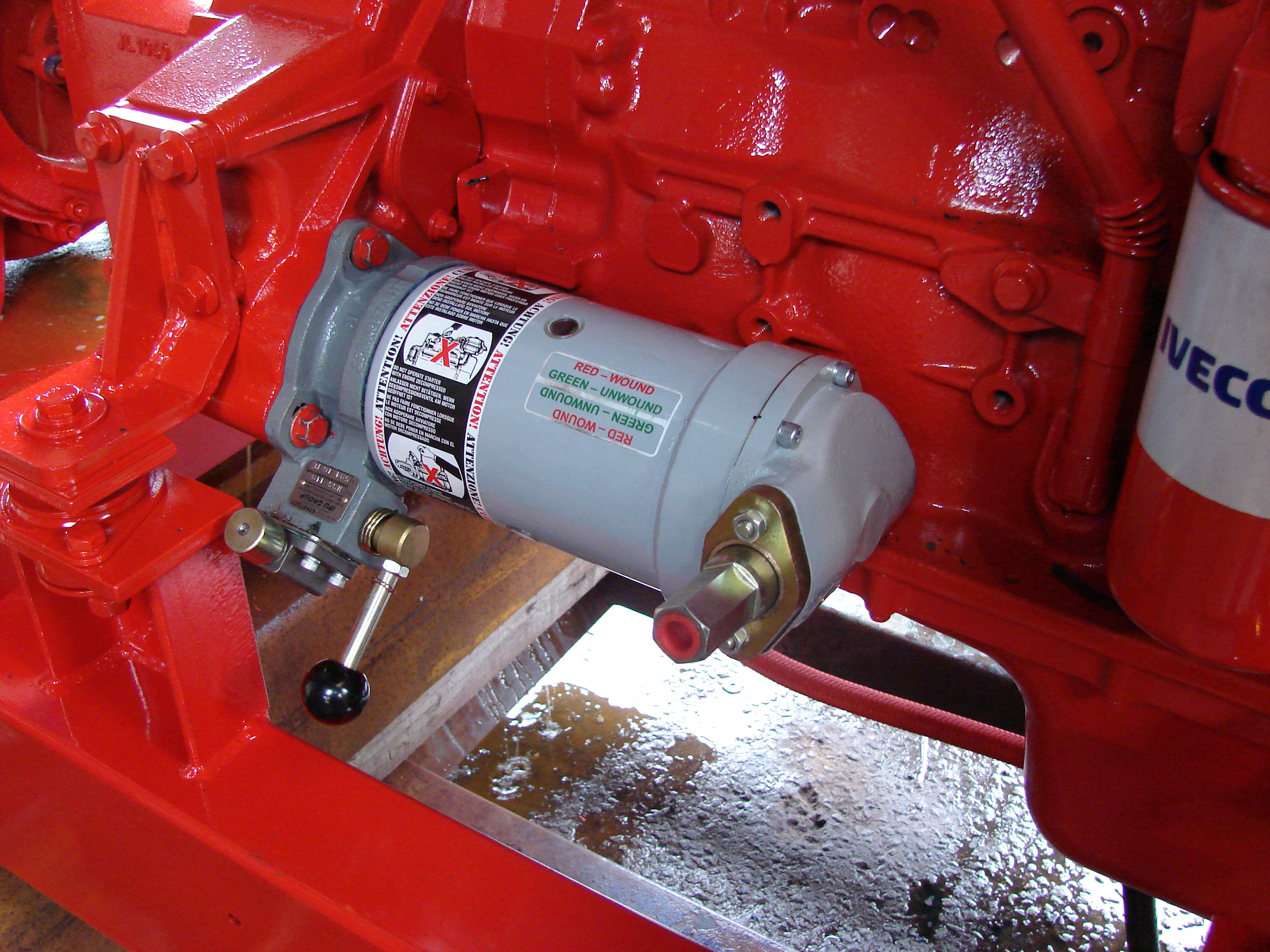 Spring Starter in place after winding position moved